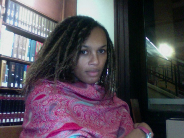 Bali Library